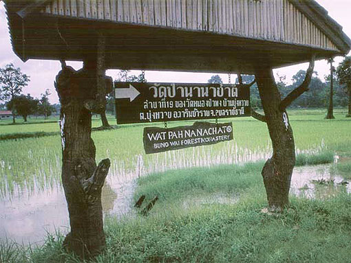 Picture of the sign at the path leading down to Wat Pah Nanachat in Bahn Bung Wai, Warin Chamrap, Thailand